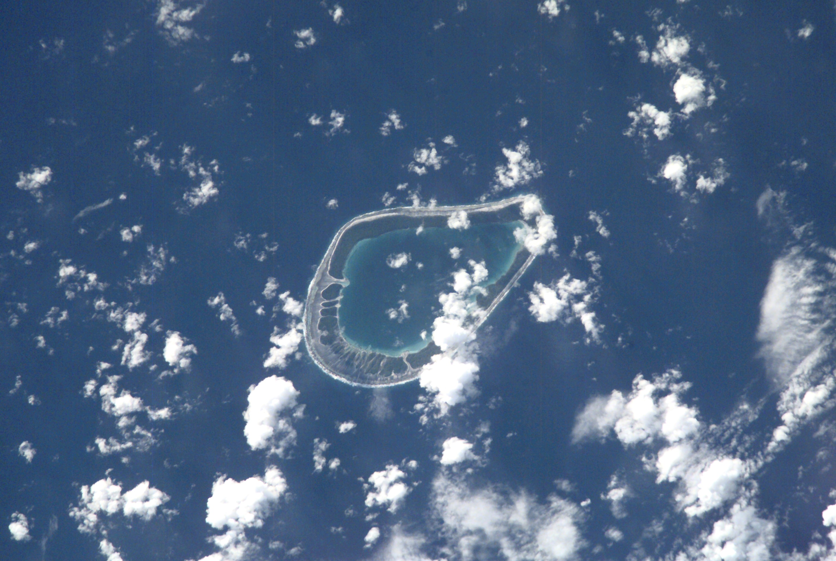 NASA astronaut image of Tenarunga Atoll (Acteon Group, Tuamotu Archipelago, French Polynesia) in the Pacific Ocean